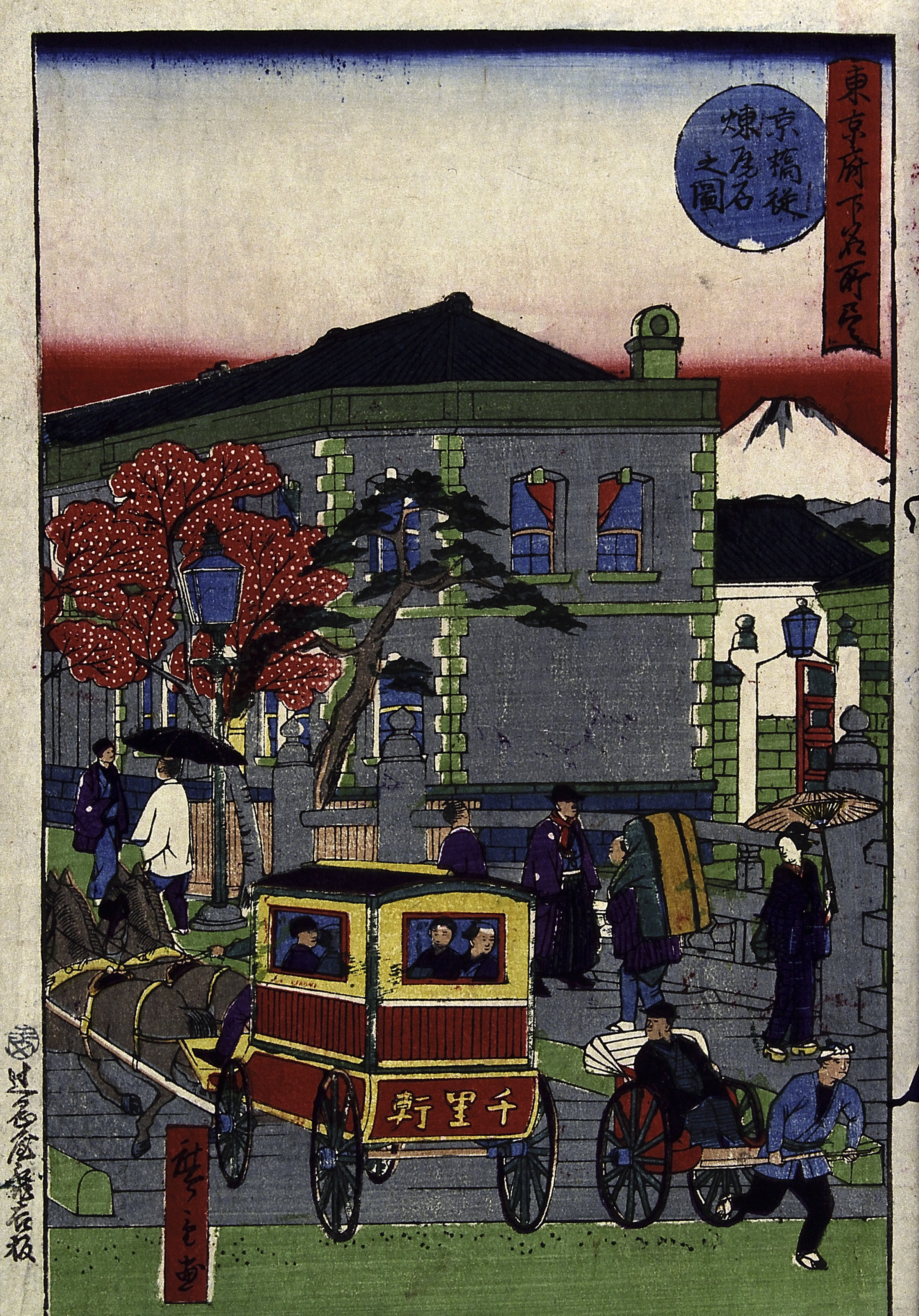 A horse-drawn public carriage crosses Kyōbashi bridge in central Tokyo, towards Ginza: a rickshaw moves in the opposite direction; mount Fuji is visible in the background. Colour woodcut by Hiroshige III, 1874.3代広重『東京府下名所尽』より「京橋従煉瓦石之図」。版元・辻岡屋亀吉, 明治7年(1874)刊） Iconographic Collections Keywords: Hiroshige